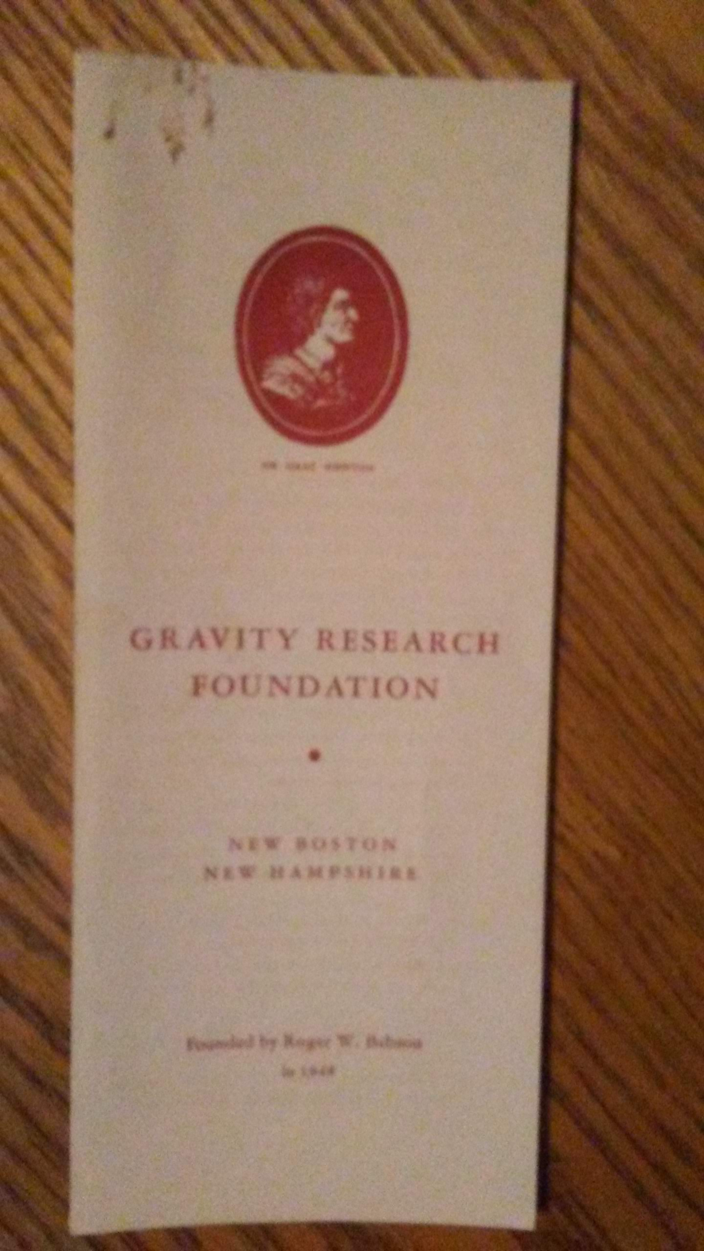 Pamphlet for Gravity Research Foundation in New Boston, N.H. Date uncertain, but prior to 1963 when the name changed for Keene Teachers College, listed with one of the trustees.